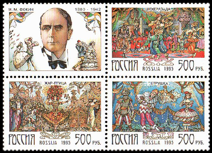 Stamps of Russia Russian ballet (continuation of series). In memory of ballet dancer, choreographer nad teacher M.M.Fokin (1880-1942), 1995